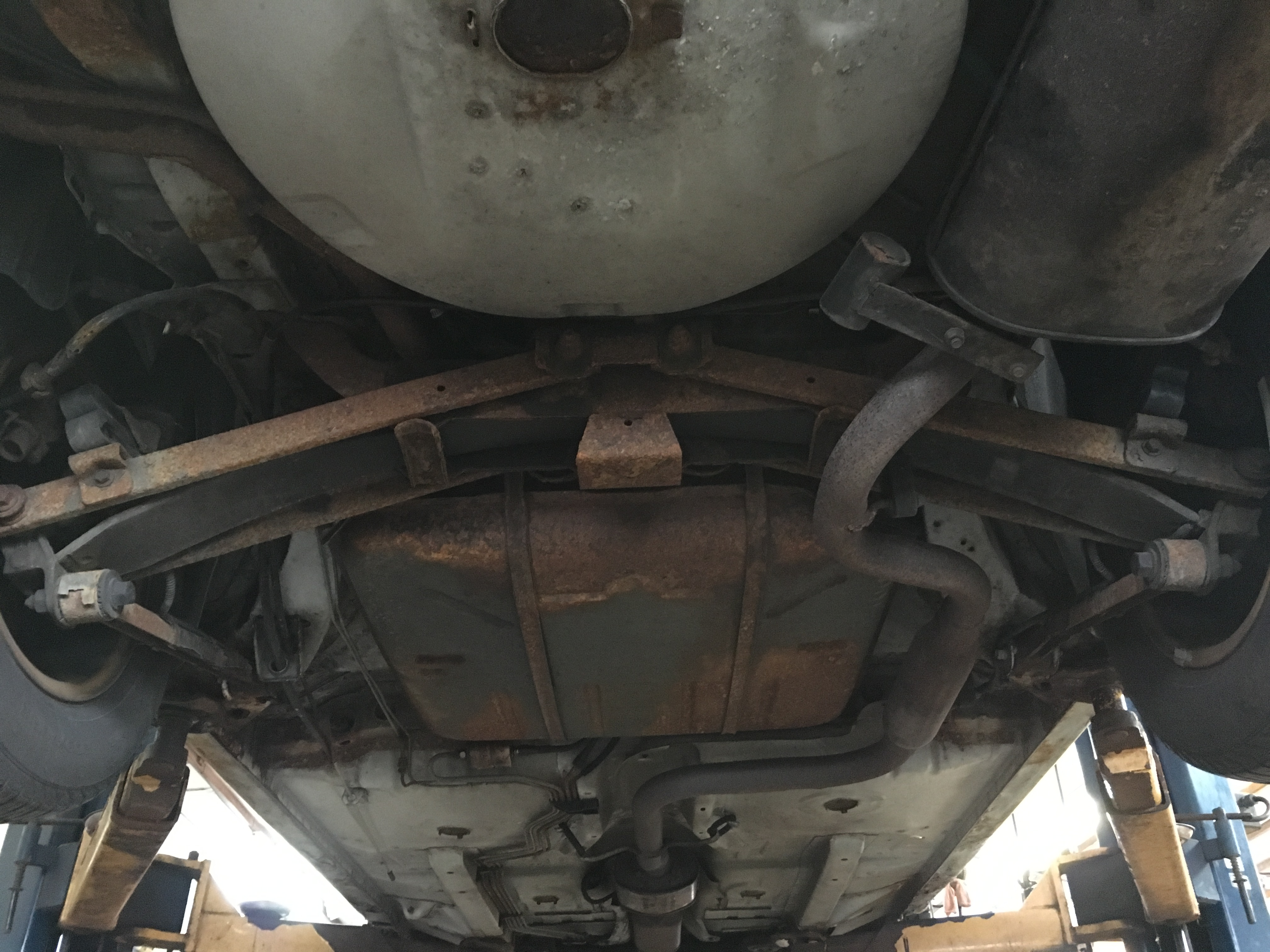 1996 Buick Regal Olympic Edition rear suspension